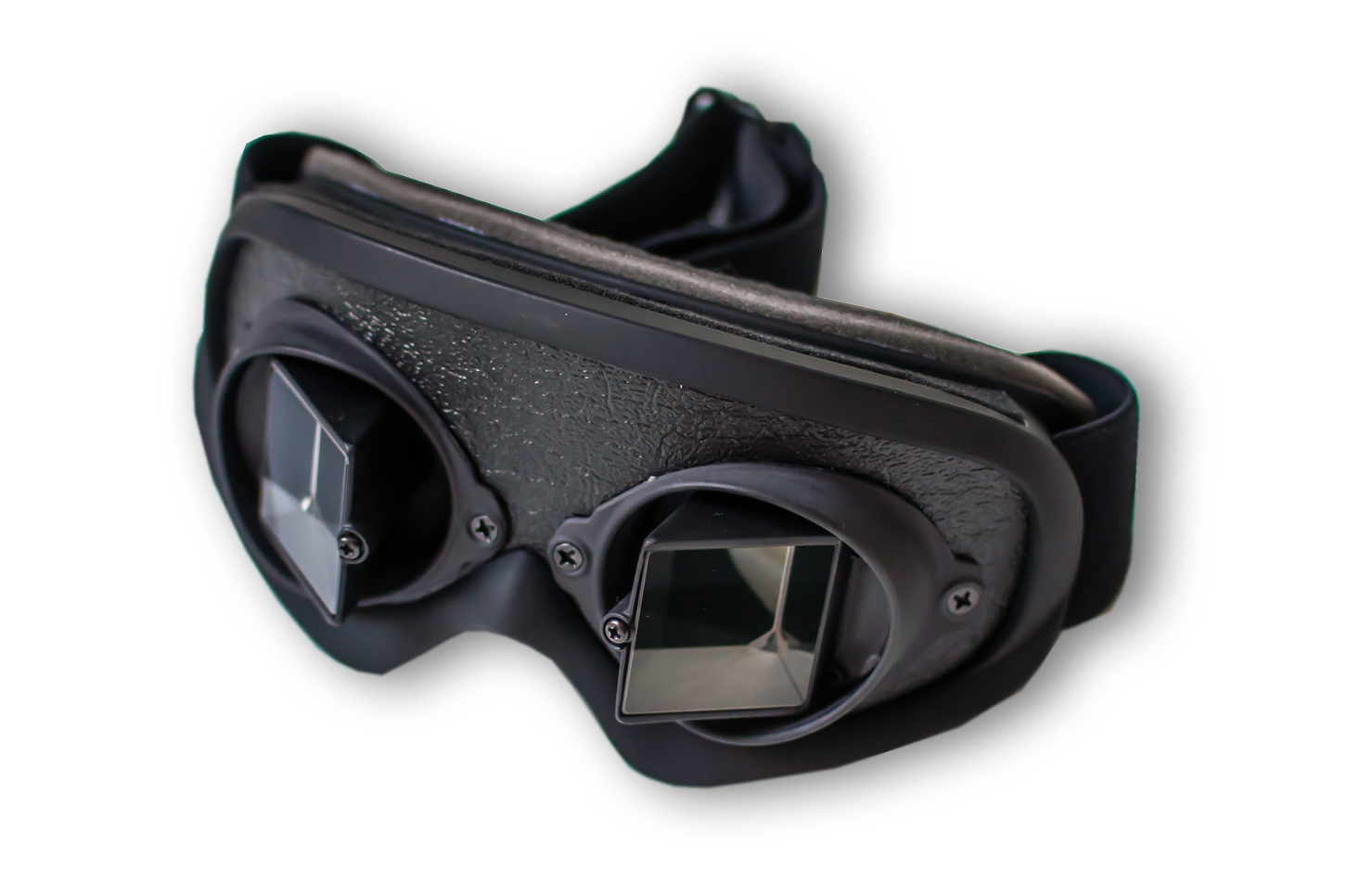 Comfortable prismatic pseudoscope for long term experiment